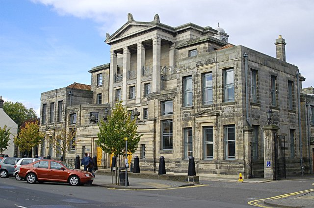 University buildings University buildings towards the eastern end of North Street.